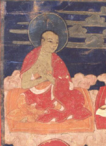 Khyungtsangpa Yeshe Lama, b.1115 - d.1176, Tibetan monk